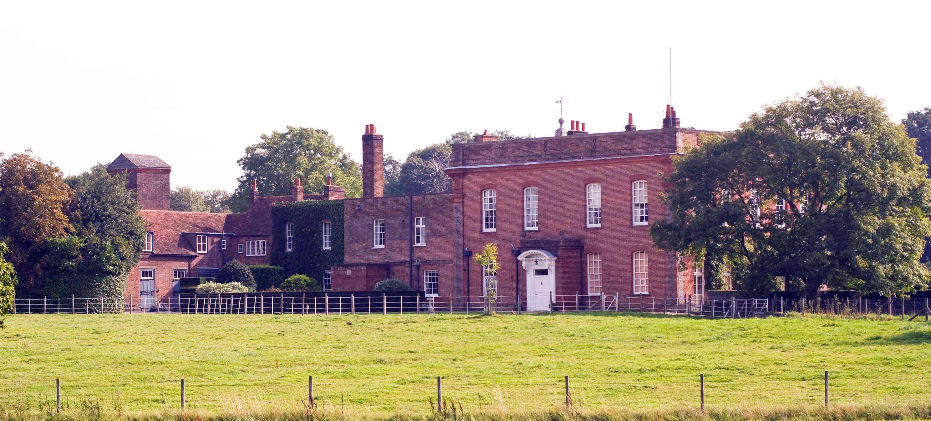 Photograph of the Golden Parsonage